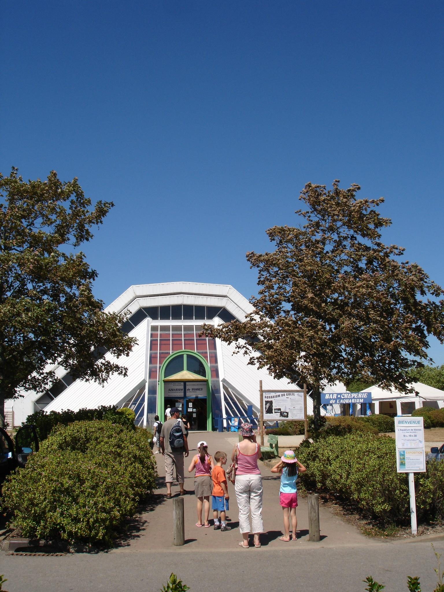 France, Morbihan, Vannes, Aquarium